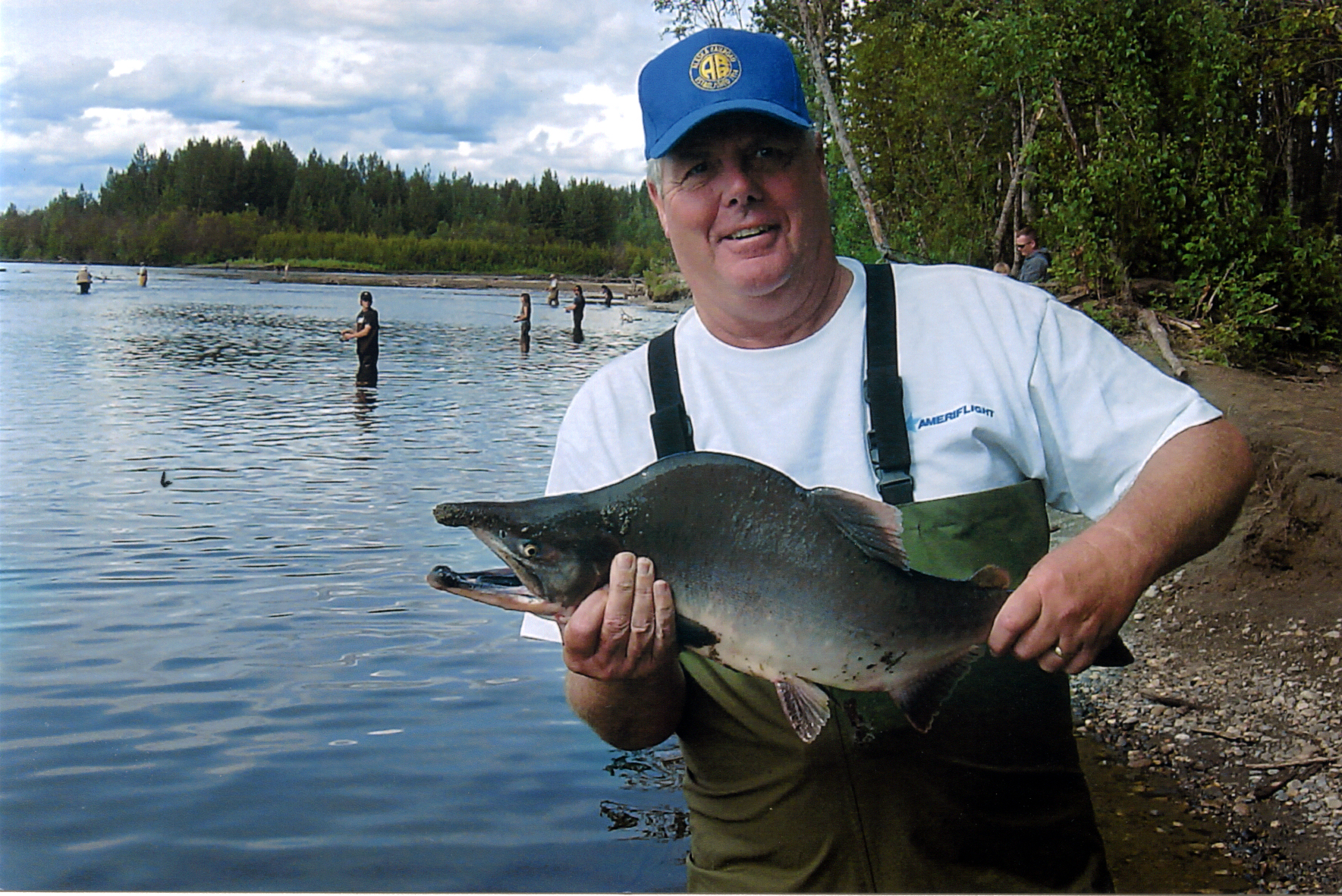 Fly fishers and pink salmon, Oncorhynchus gorbuscha